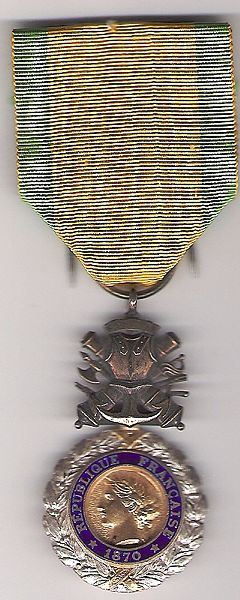 Photo of Medal of Military Chief Warrant Officer Mesplède.